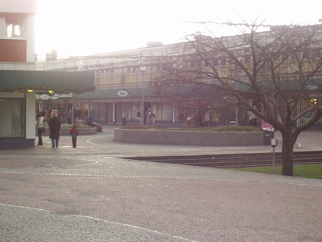 Author: Osquar